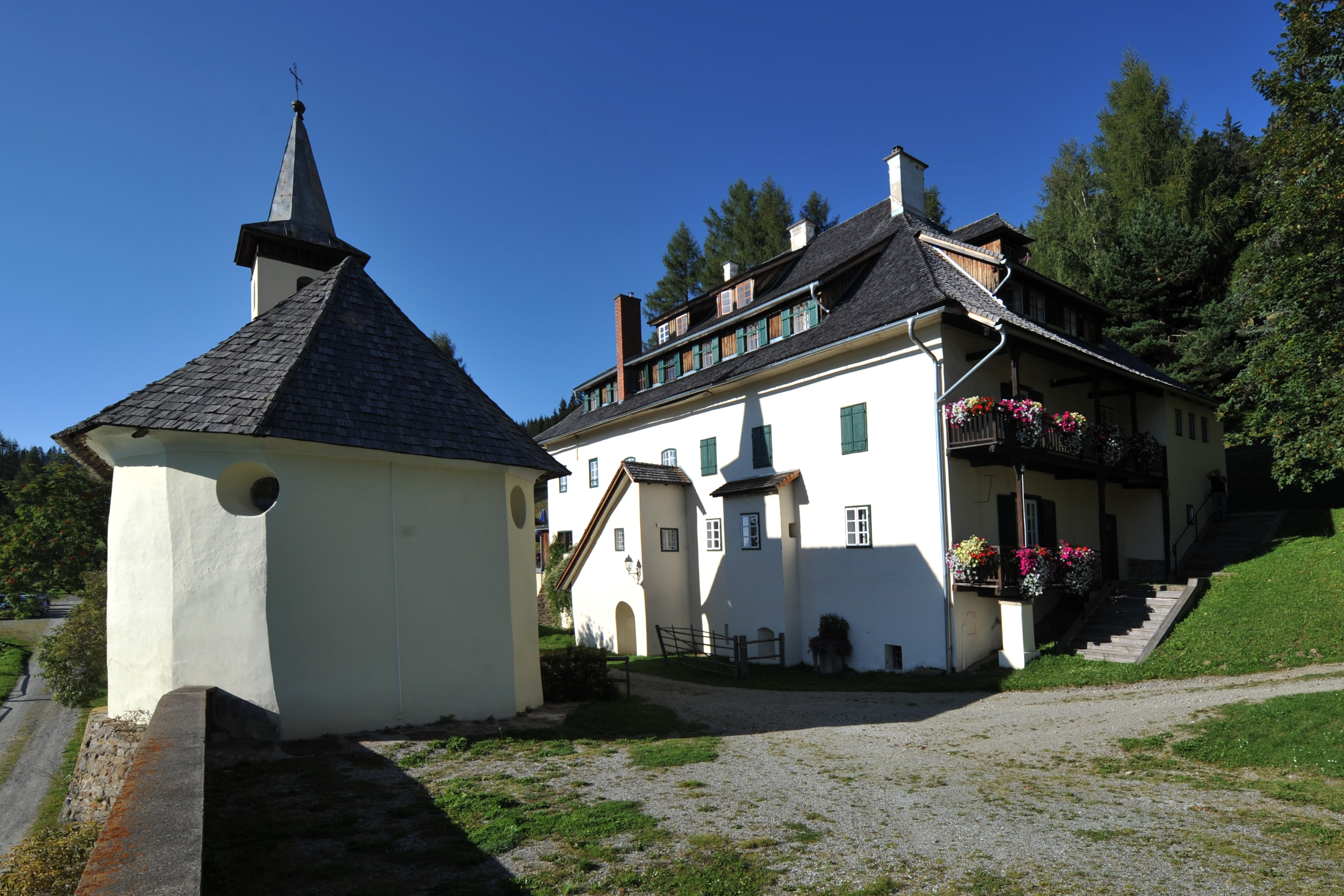 Dieses Foto wurde im Rahmen des von Wikimedia Österreich unterstützten Projekts Wiki takes oberes Murtal erstellt. The making of this work was supported by Wikimedia Austria. For other files made with the support of Wikimedia Austria, please see the category Supported by Wikimedia Österreich. Stüblergut